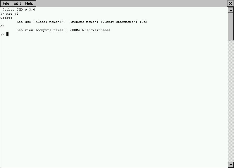 Microsoft Windows CE Version 3.0 (Build 126) net command